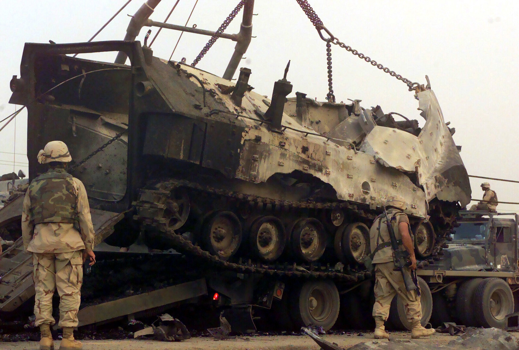 USMC amphibious vehicle destroyed near Nasiriyah, Iraq, March 2003.